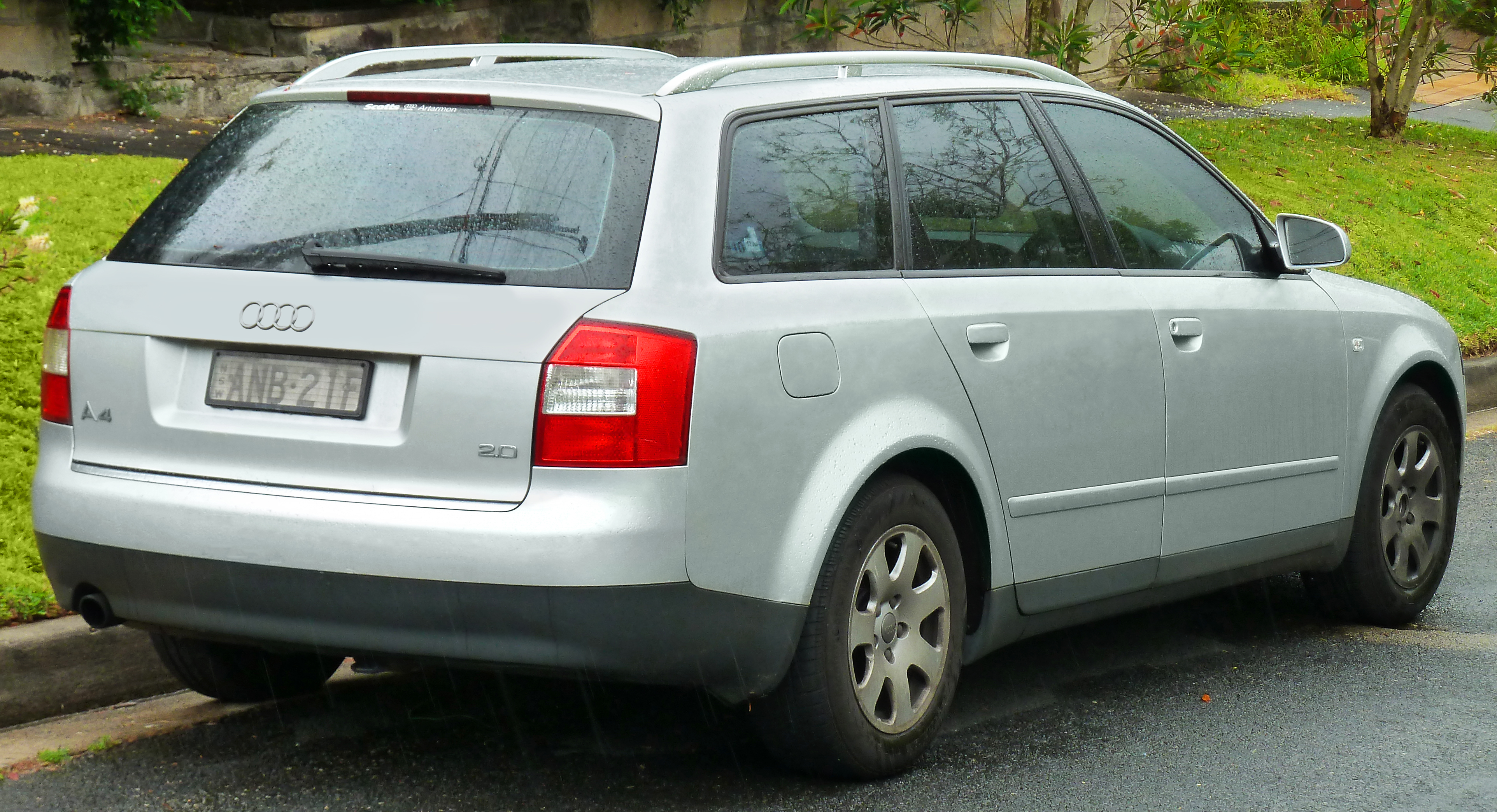 2002–2005 Audi A4 (8E) 2.0 Avant. Photographed in Roseville, New South Wales, Australia.